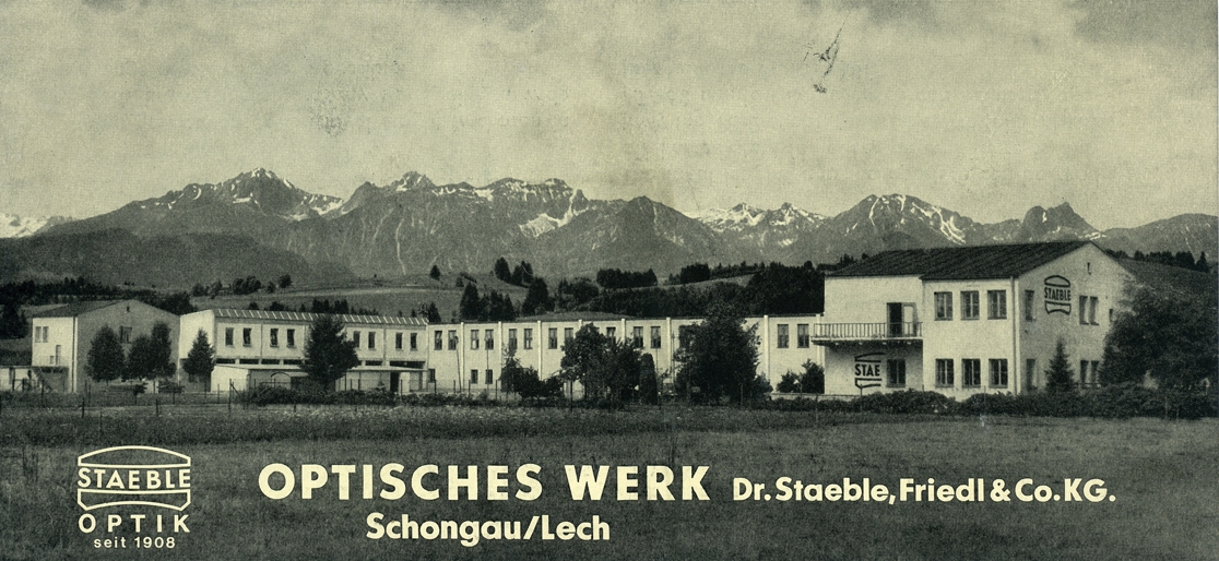 Staeble-Werk (Dr. Staeble, Friedl & Co. KG) was a German optics manufacurer founded in 1908 in Munich and moved to Schongau in 1944. It was bought in 1969 by Agfa.